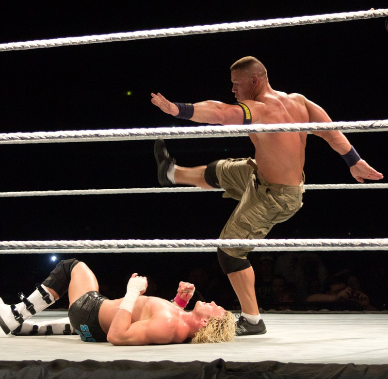 John Cena performs the Five Knuckle Shuffle fist drop onto Dolph Ziggler during a WWE house show on February 2, 2013 in Montgomery, Alabama.